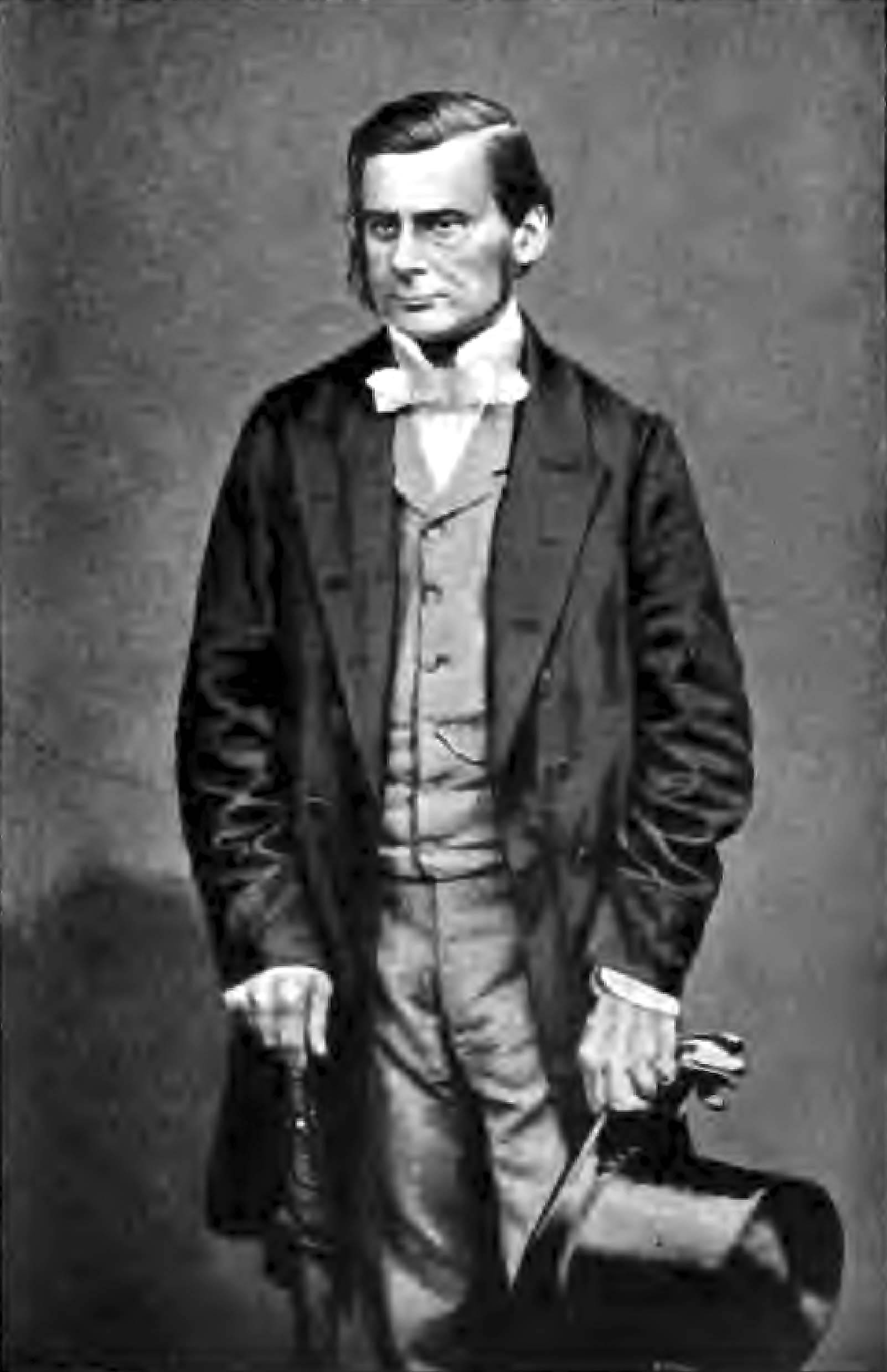 Thomas Henry Huxley, photograph taken at the meeting of the British Association, 1860